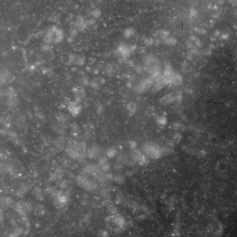 Watts, on the moon. North at top. Altitude 117 km, sun angle 79 deg.